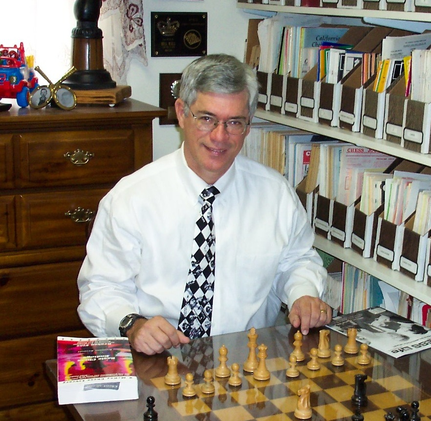 Photo of American chess journalist and author William (Bill) Dale Wall